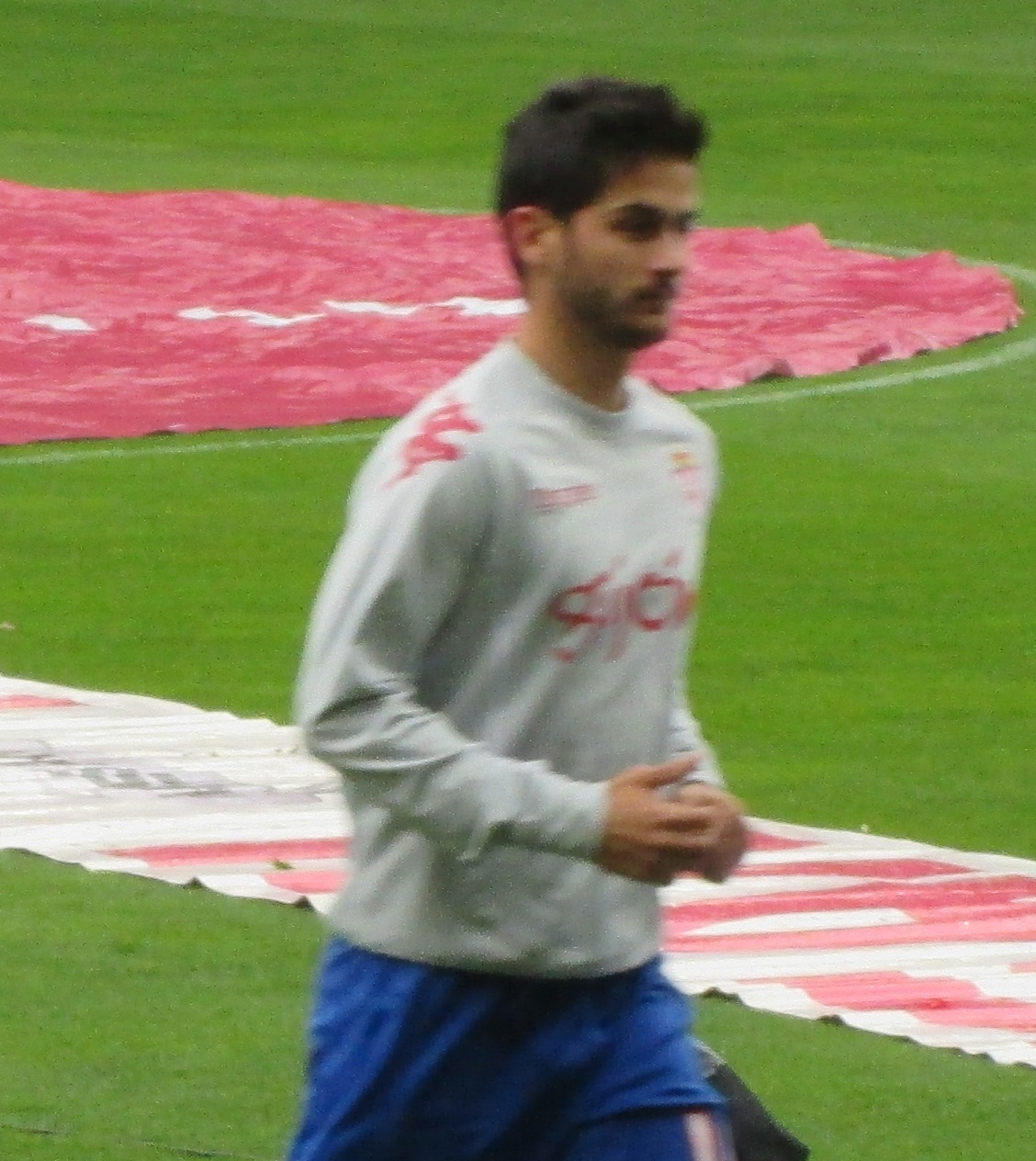 Nacho Cases, in a warm up with Sporting de Gijón